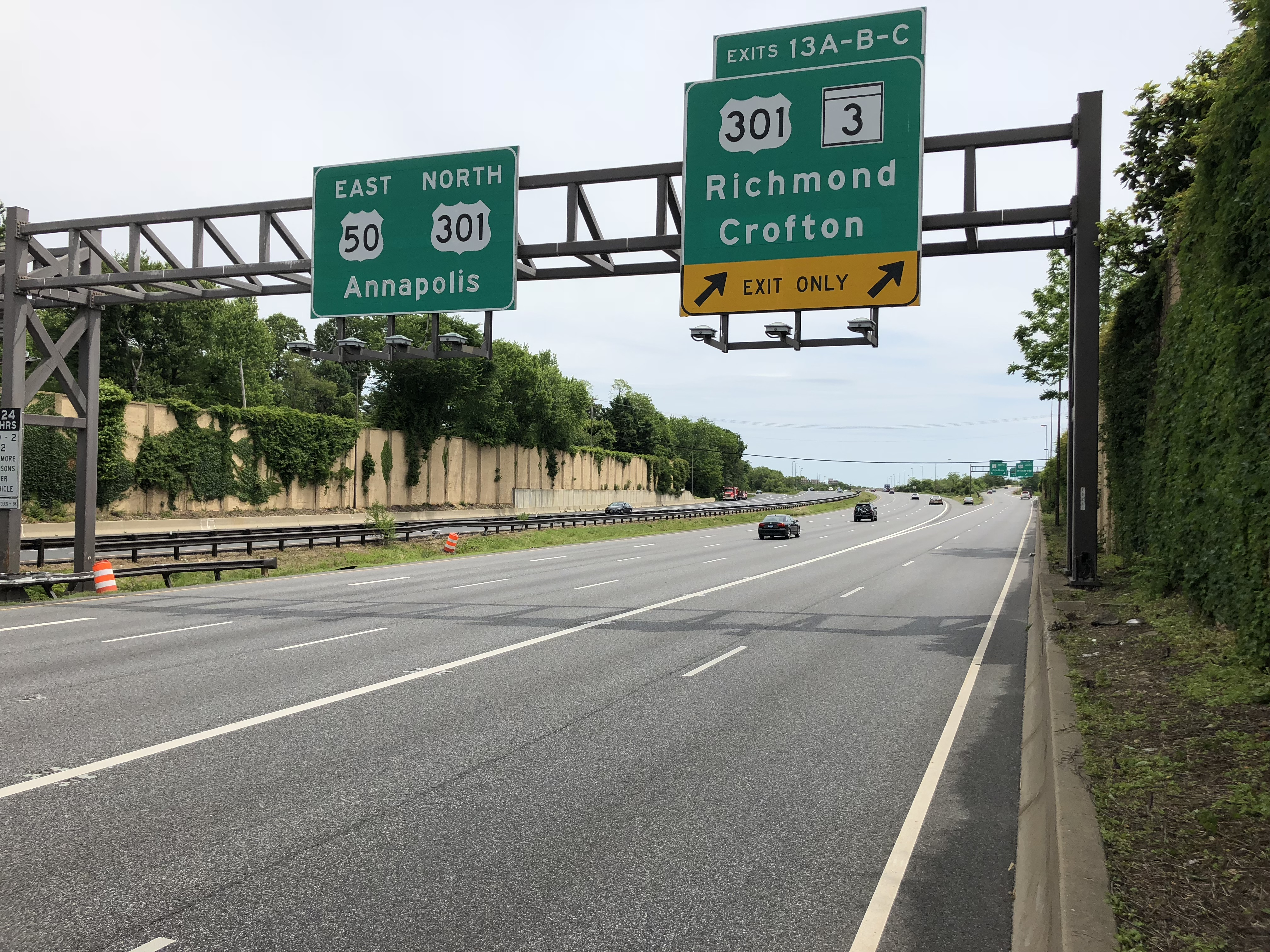 View east along Interstate 595 and U.S. Route 50 (John Hanson Highway) at Exit 13 (U.S. Route 301, Maryland State Route 3, Richmond, Crofton) in Bowie, Prince George's County, Maryland